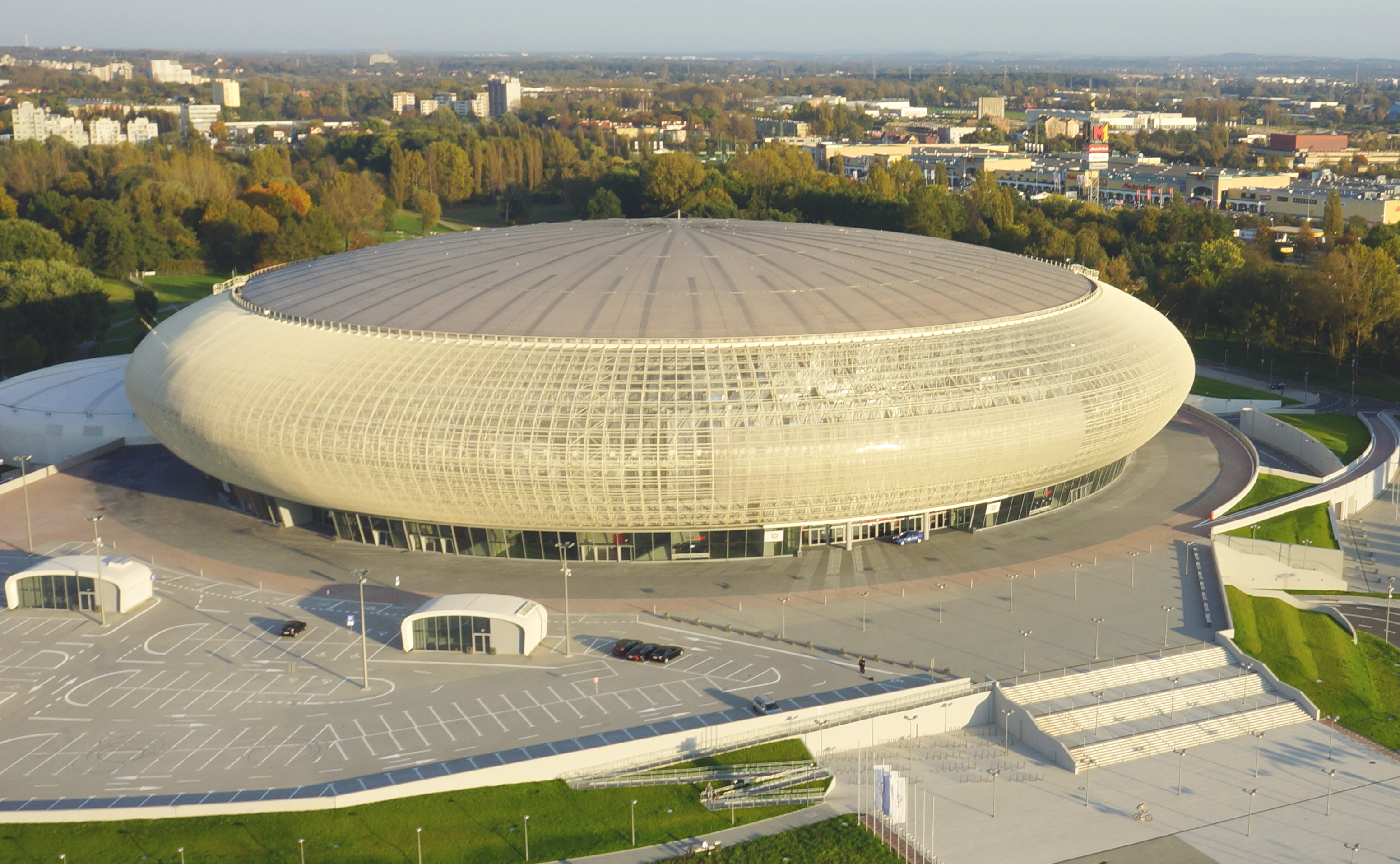 Aerial view of Krakow Arena - october 2014